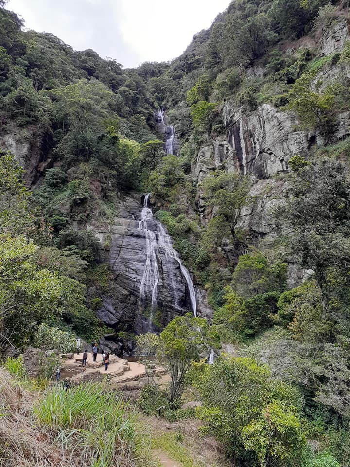 Kolapathana Ella is a beautiful hidden water fall located in mandaram nuwara